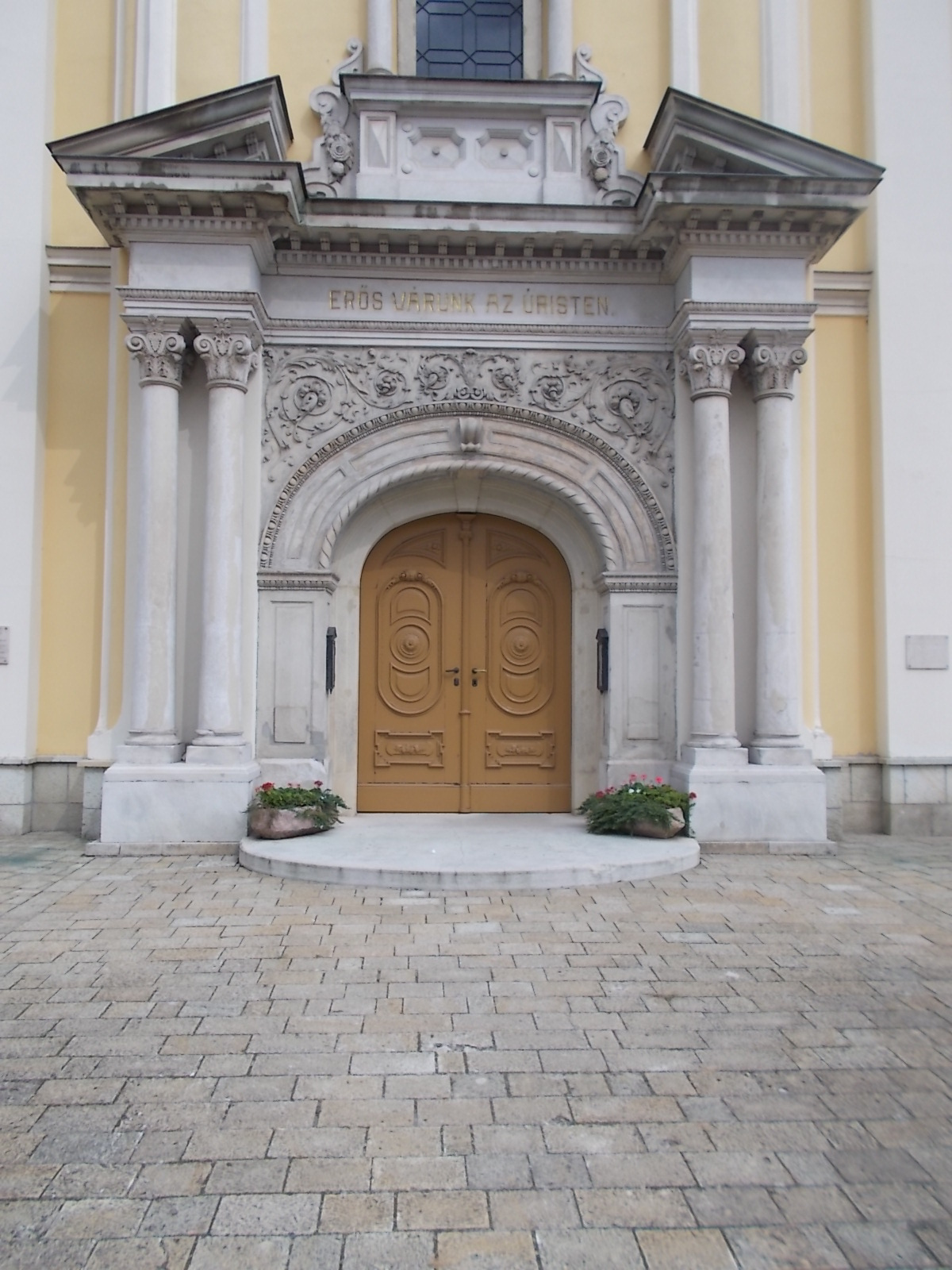 Lutheran Great Church portal. Baroque origin, 1784-1786. Reconstructed in eclectic neo-baroque style between 1850-1860, 1885-1886 and 1936. - Luther Square, Nyíregyháza, Szabolcs-Szatmár-Bereg County, Hungary.